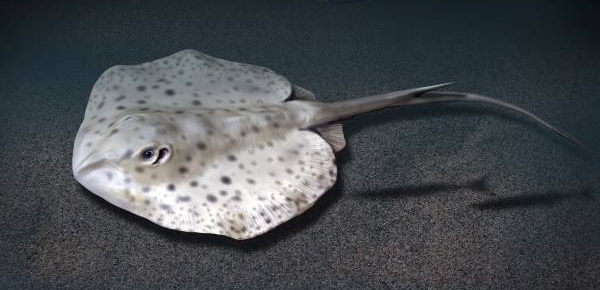 Crop of file in filename